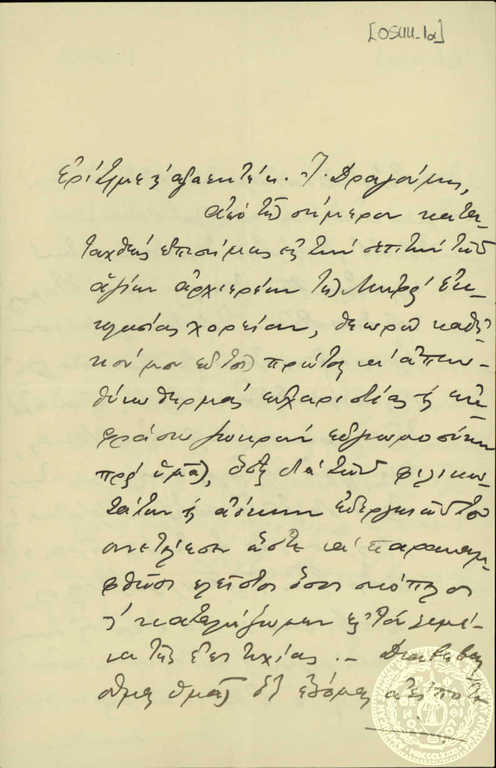 Hrysostomos_of_Phyladelphia_Letter_to_Ion_Dragoumis